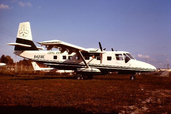 Manufacturer: Australian Government Aircraft Factories (GAF) Designation: N-24 Nomad Airline: Coral Air Serial Number: N421NE